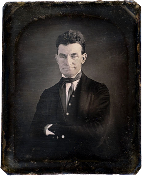 Daguerreotype of John Brown